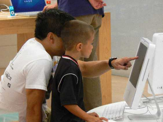 "Okay, fun over. Click here to cancel that order for fifty iPod nanos..."